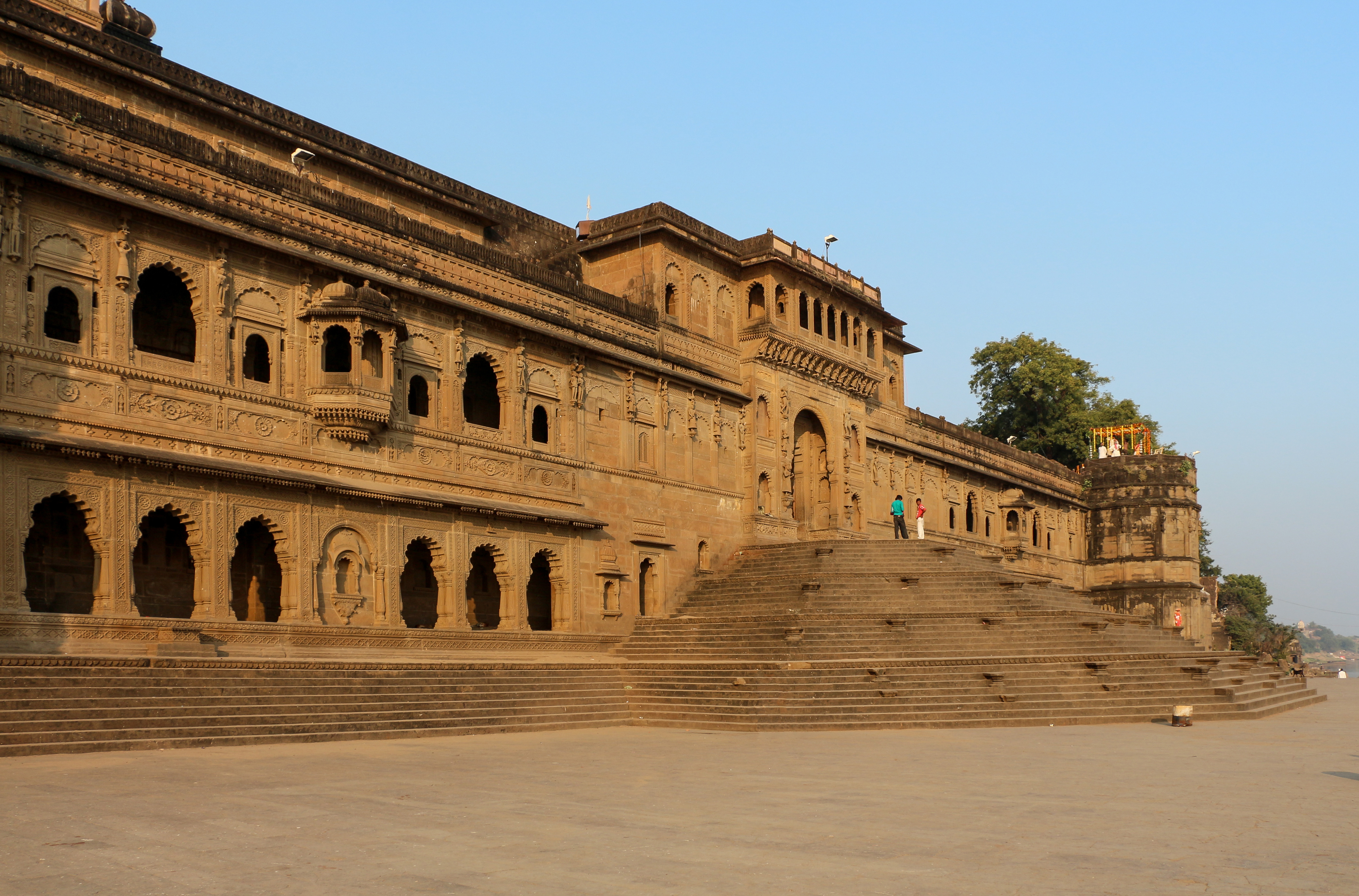 Facade of Maheshwar Fort, Maheshwar, India